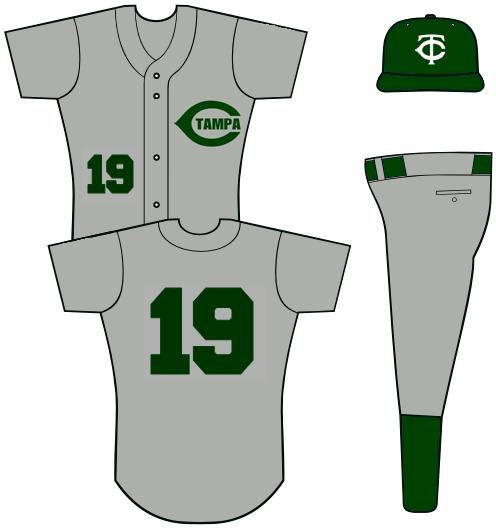 Tampa Catholic Away Baseball Uniform. Gray with TAMPA inside a C. The Number 19 is retired at TC.